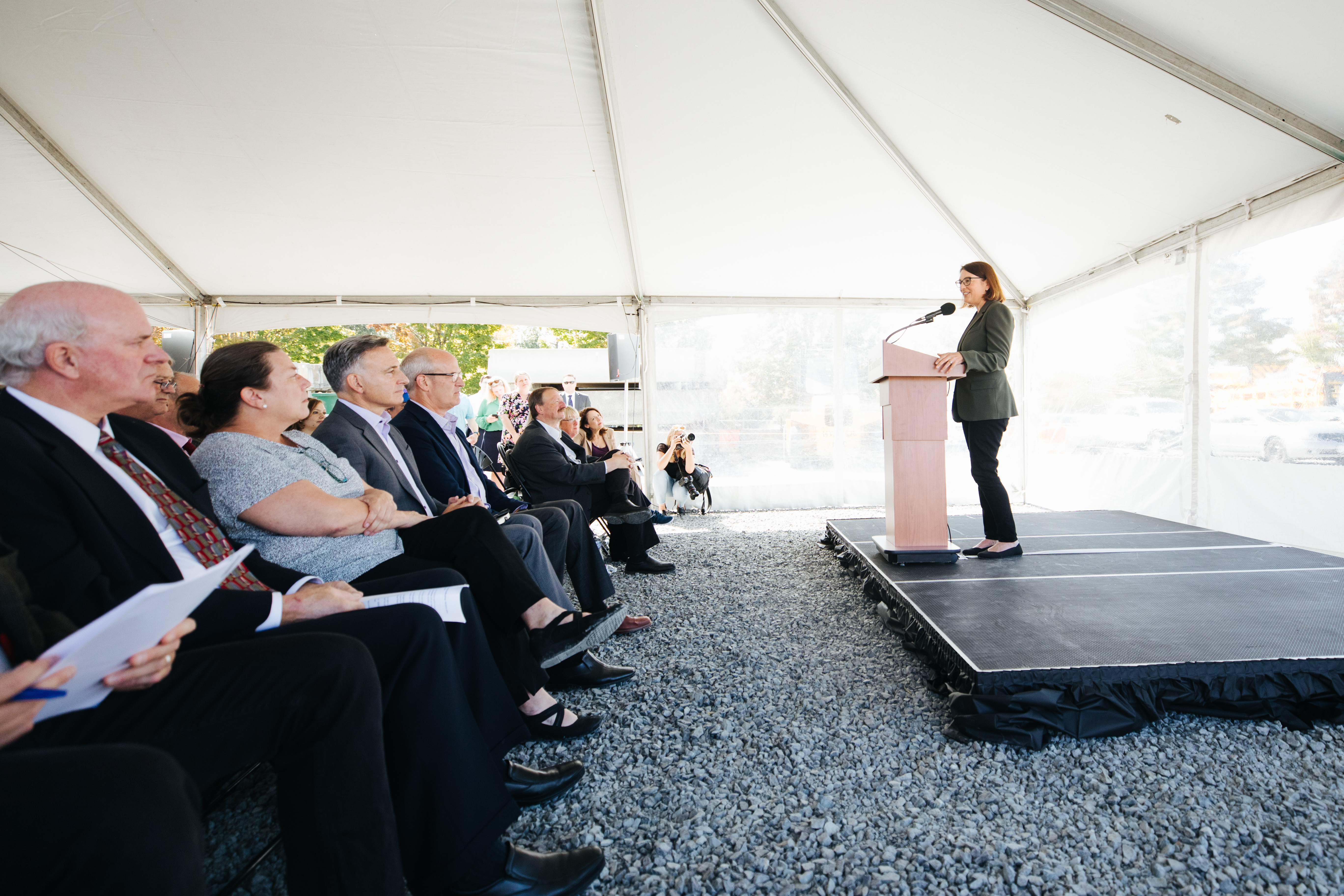 Congresswoman DelBene speaks at the groundbreaking ceremony for the Lynnwood Link Extension project, which will expand on existing public transit around Seattle.